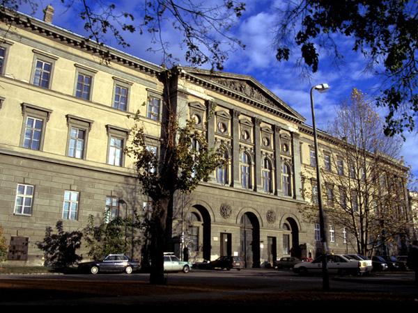 The old 'Ludovika Akademia' building of the University, Ludovika ter, Budapest